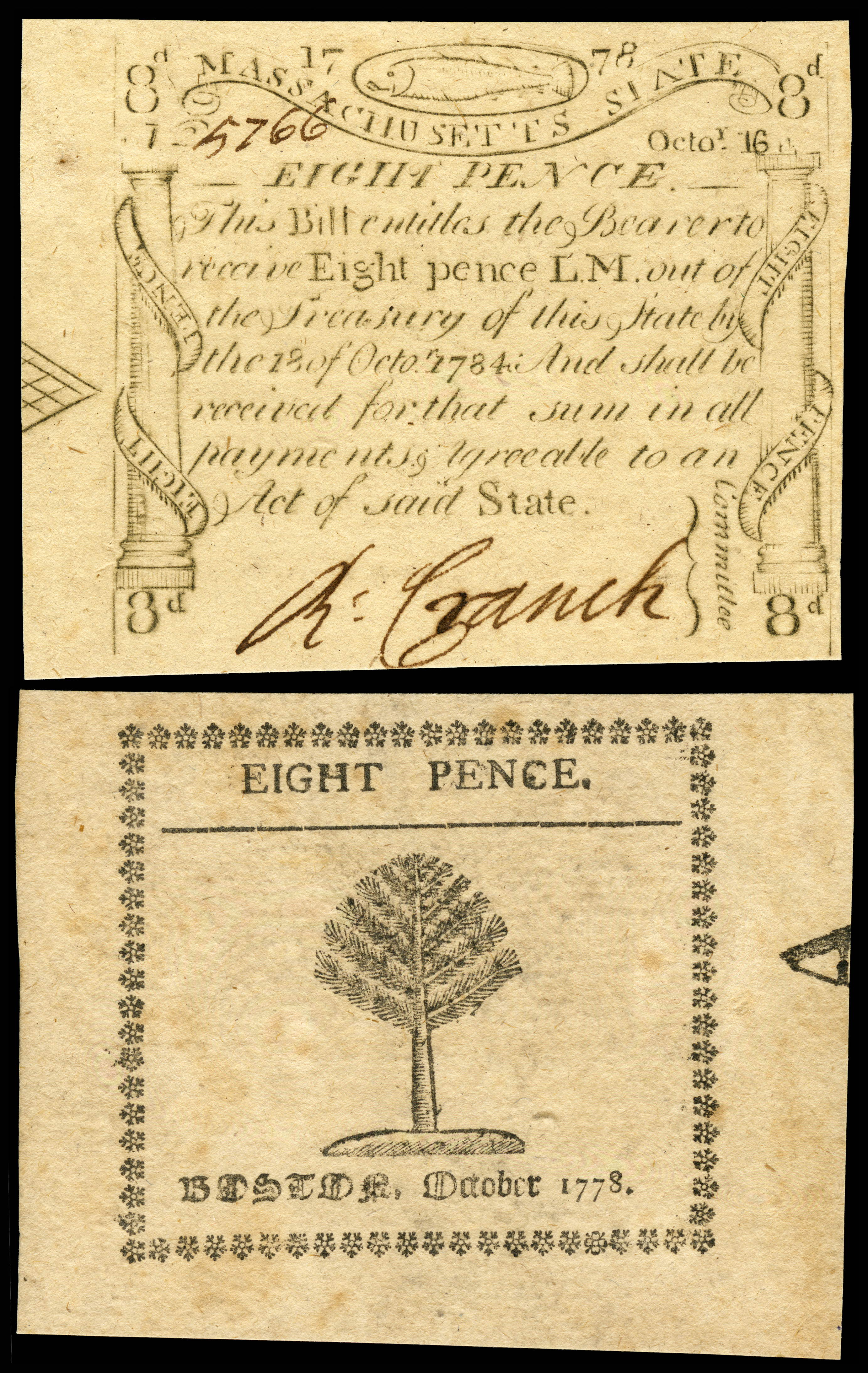 Eight pence Colonial currency from Massachusetts. Signed by Richard Cranch. Engraved and printed by Paul Revere.